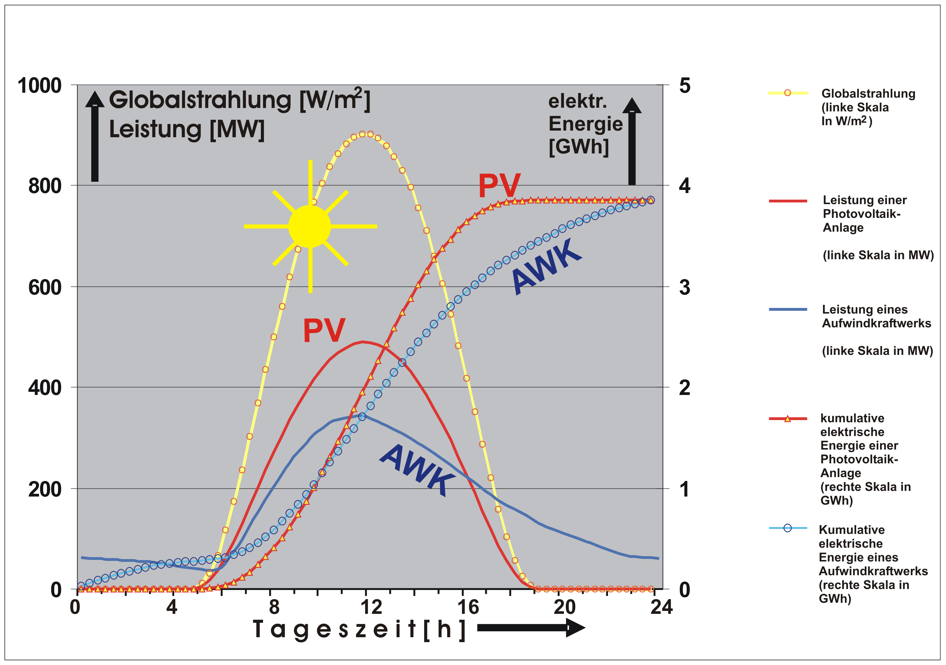 Daily course of electric power and energy of a solar updraft and a photovoltaic power plant.If the installation cost of both power plants were identical the specific investment costs of the the updraft plant would appear to be higher because of the lower peak power whereas the electric energy production is equal for both types.The power profile of the updraft power plant is somewhat more balanced and thus would match the user need more than that of the PV plant.